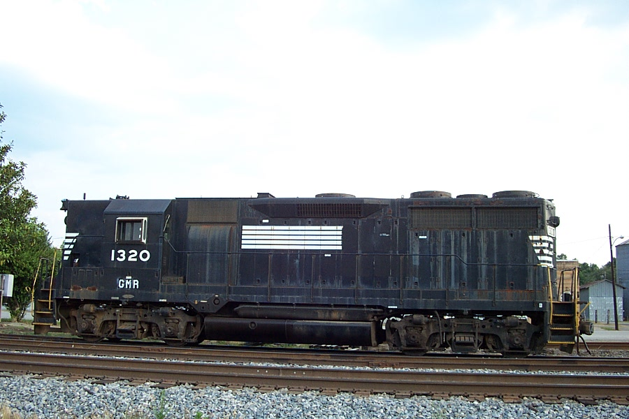 Georgia Midland Railroad GP35 1320 at Midville, Georgia. Former NS 1320, nee-Norfolk & Western 1320